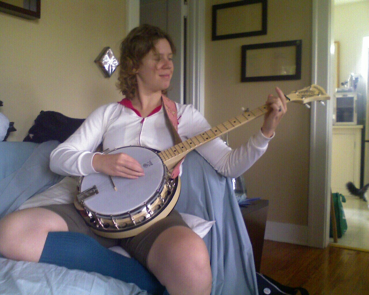 Morning serenade by @kfitzpatrick.